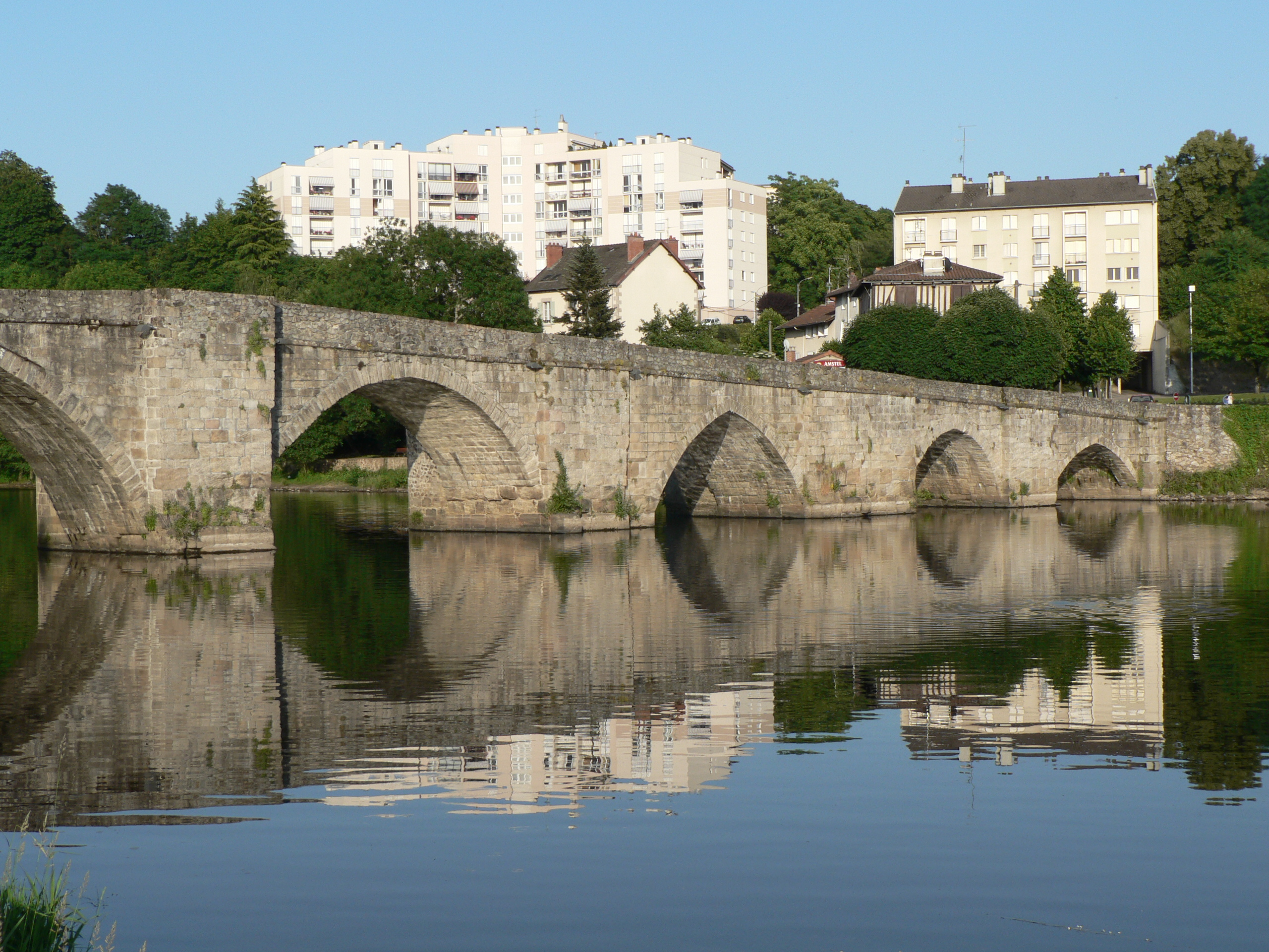 Holy Martial's Bridge, Limoges, France